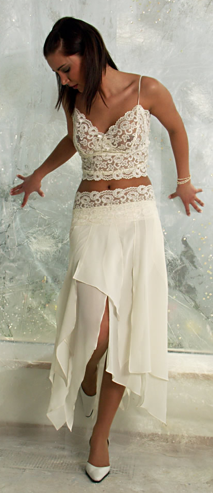 Semi-transparent lace dress. Skirt is made of chiffon and top is lace.